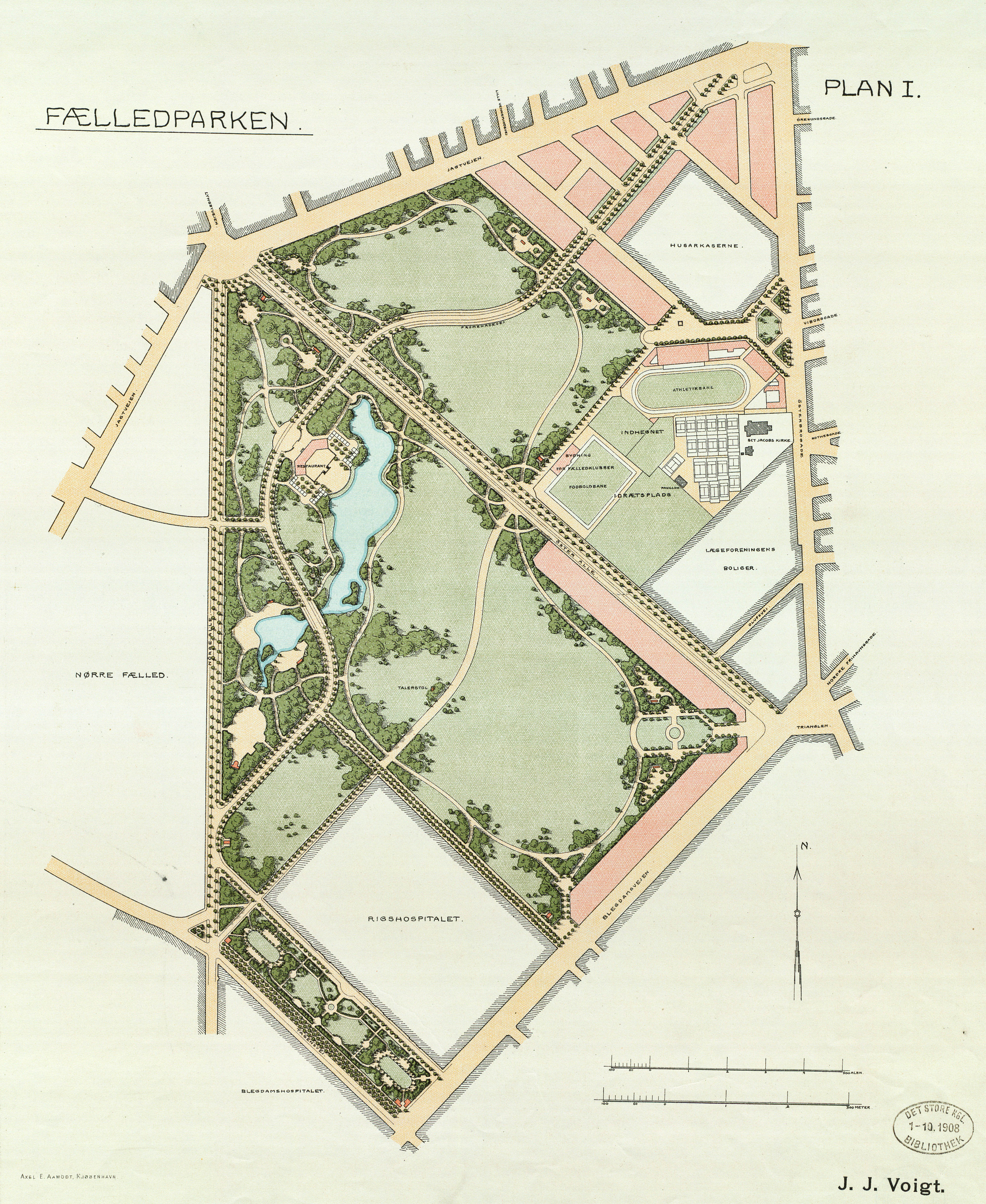 Original plan for Fælledparken. Colour lithograph, 42 x 34 cm. Printed by Axel E. Aamodt